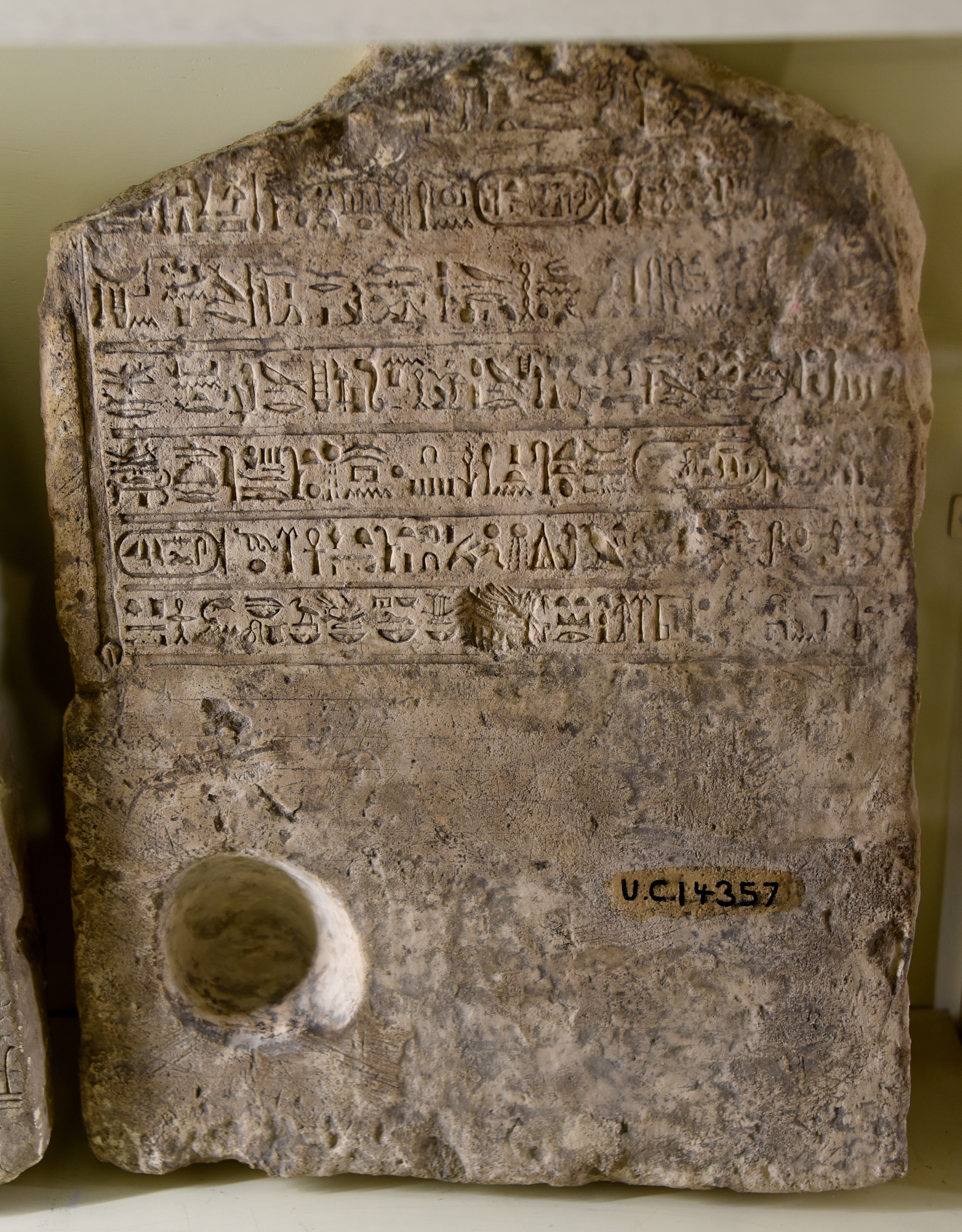 Limestone stela of a high-priest of god Ptah. It bears the cartouches of Cleopatra and Caesarion. The deep round hole might be a door-socket; the stela was re-used later on for this purpose. From Egypt. Ptolemaic Period. The Petrie Museum of Egyptian Archaeology, London. With thanks to the Petrie Museum of Egyptian Archaeology, UCL.